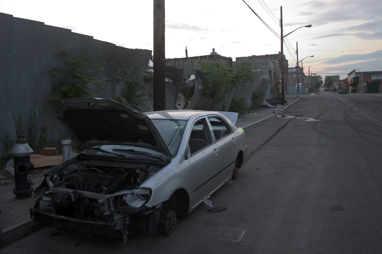 An abandoned and stripped Toyota Corolla somewhere within the Hunts Point section of The Bronx, New York City.